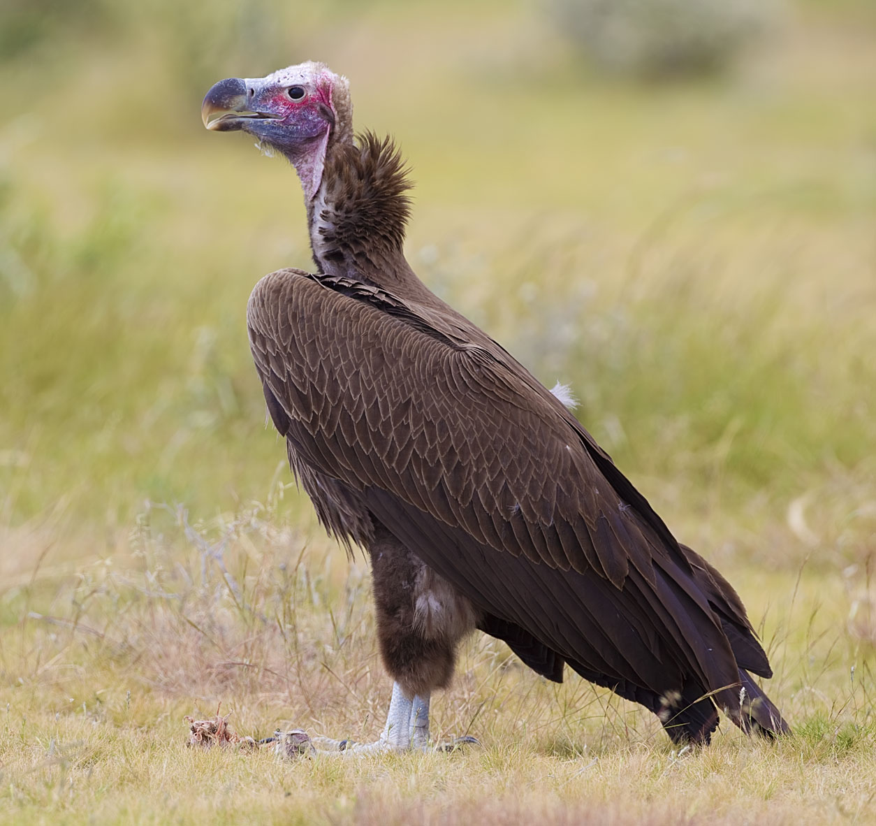 Lappet-faced Vulture Torgos tracheliotus, Etosha National Park